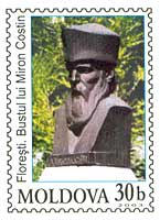 Stamp of Moldova